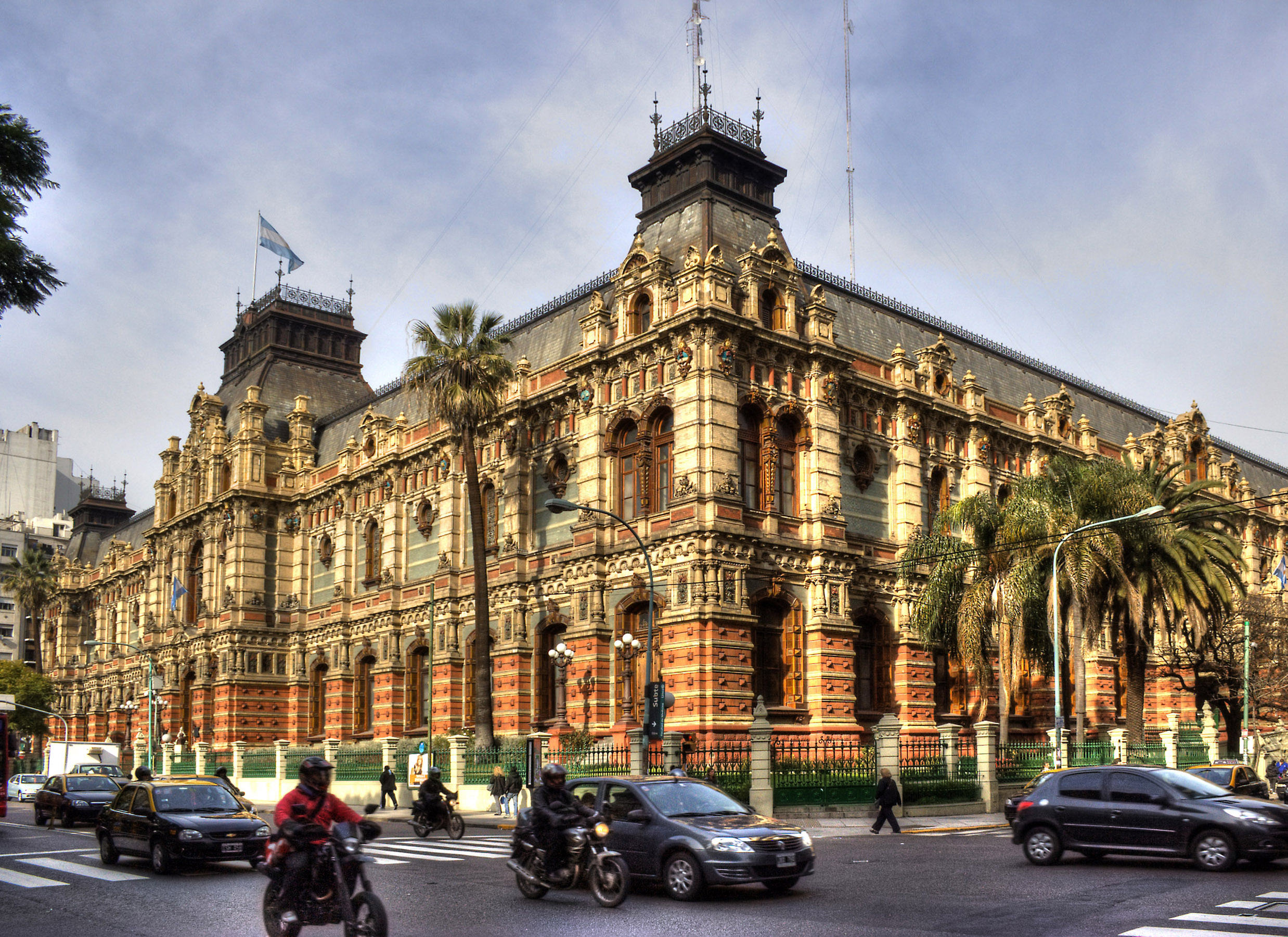 The "Palace of Running Water," or the Water Works Building ("Palacio de Aguas Corrientes") in Buenos Aires, on Córdoba Avenue, between Riobamba and Ayachucho.